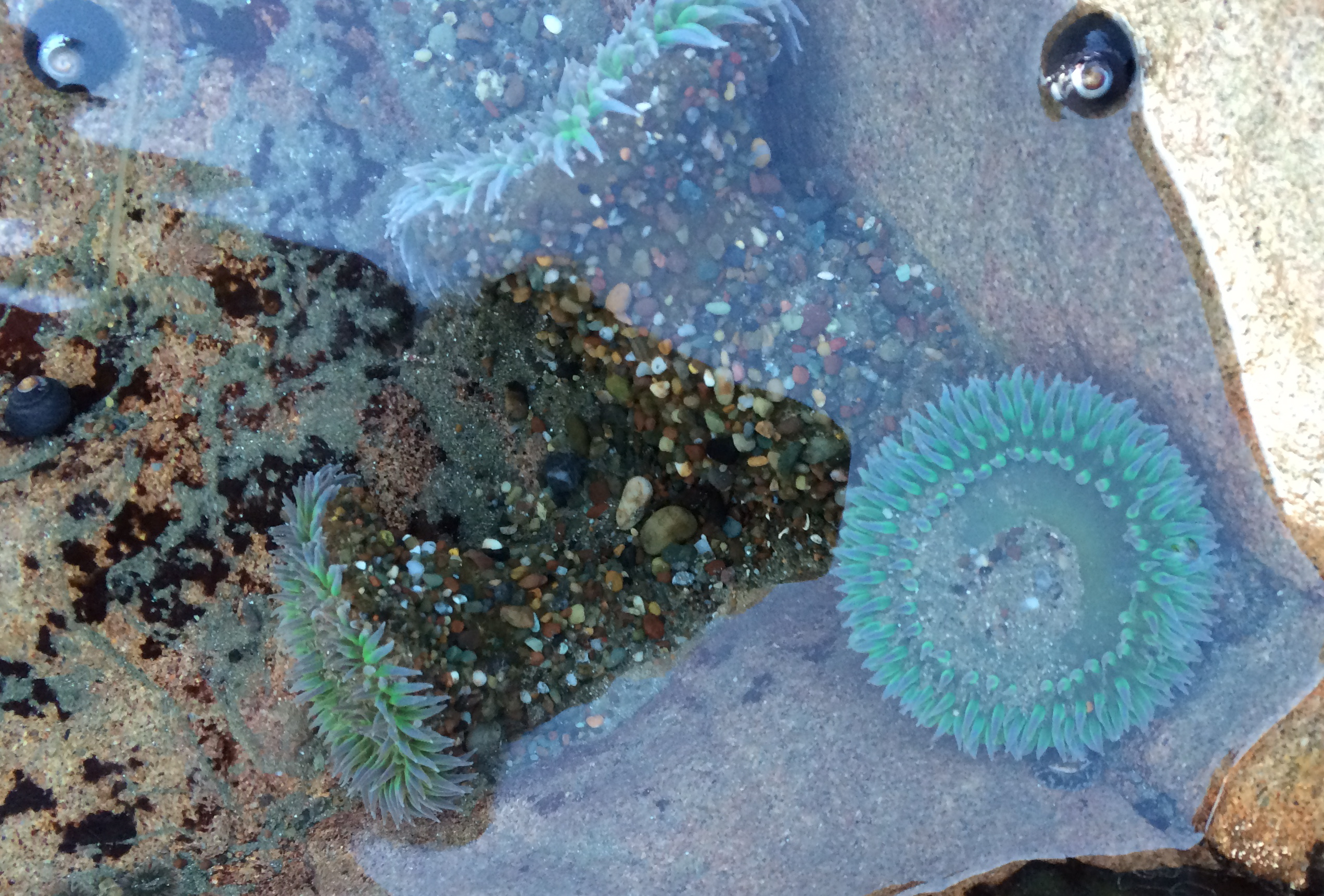 Green anemones with black tegulas (Tegula funebralis), tidepool at -1.3 low tide, North Moonstone beach near Cambria, CA